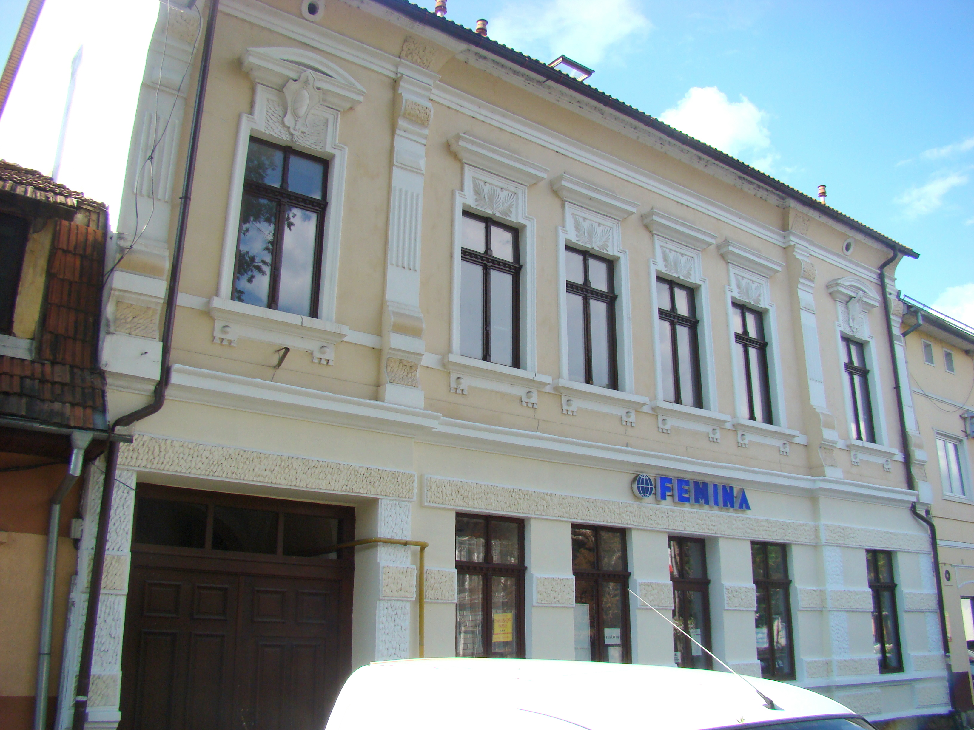 House, historic monument, in Bistrița, Bd. Independenței 18